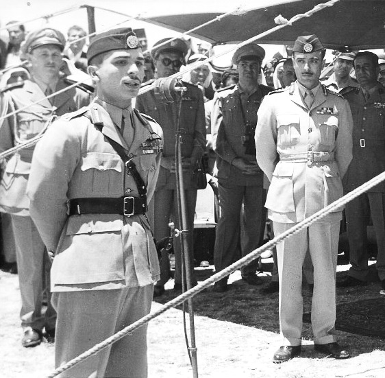 King Hussein addressing Jordanian troops as Chief of Staff Ali Abu Nuwar (foreground right) looks on.